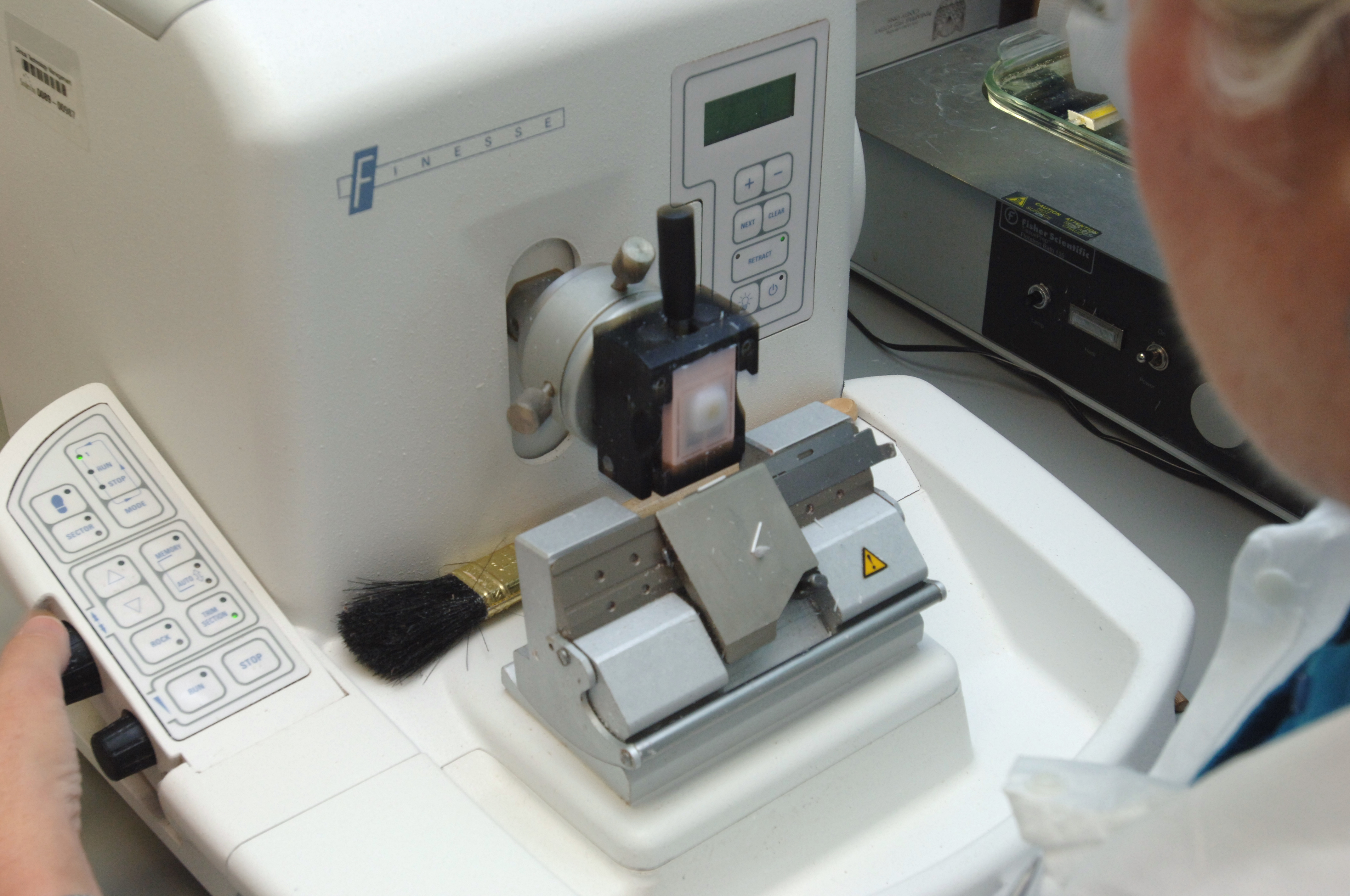 The solid paraffin block is mounted on the tissue holder of a microtome. The holder is passed up and down in front of a very sharp blade, advancing the tissue forward very slightly with each stroke.